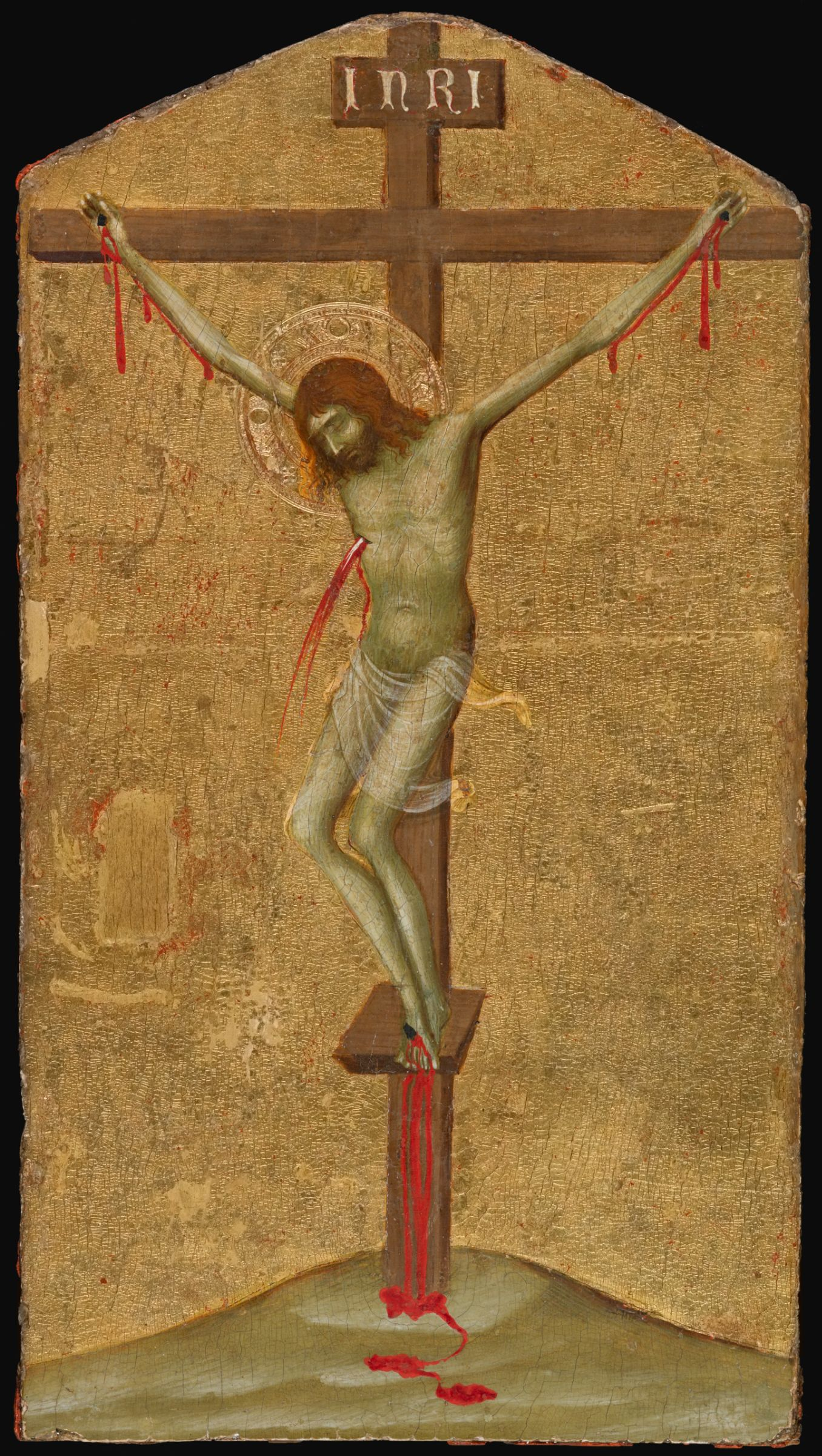 Christ on the Cross